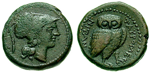 SICILY, Tauromenion. After 201 BC. Æ 18mm (5.56 gm). Helmeted head of Athena right / Owl standing facing.